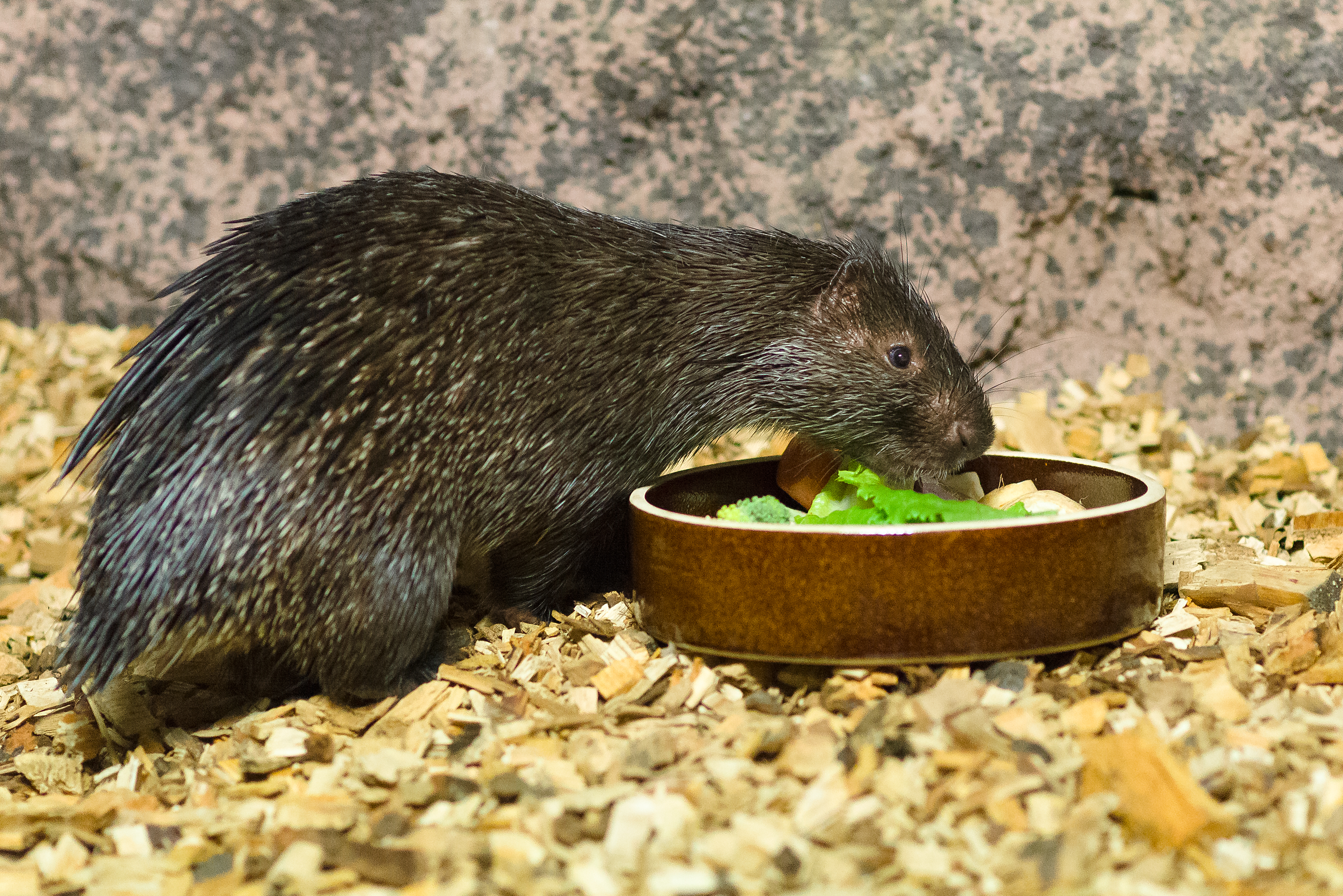 Philippine porcupine, Prague Zoo